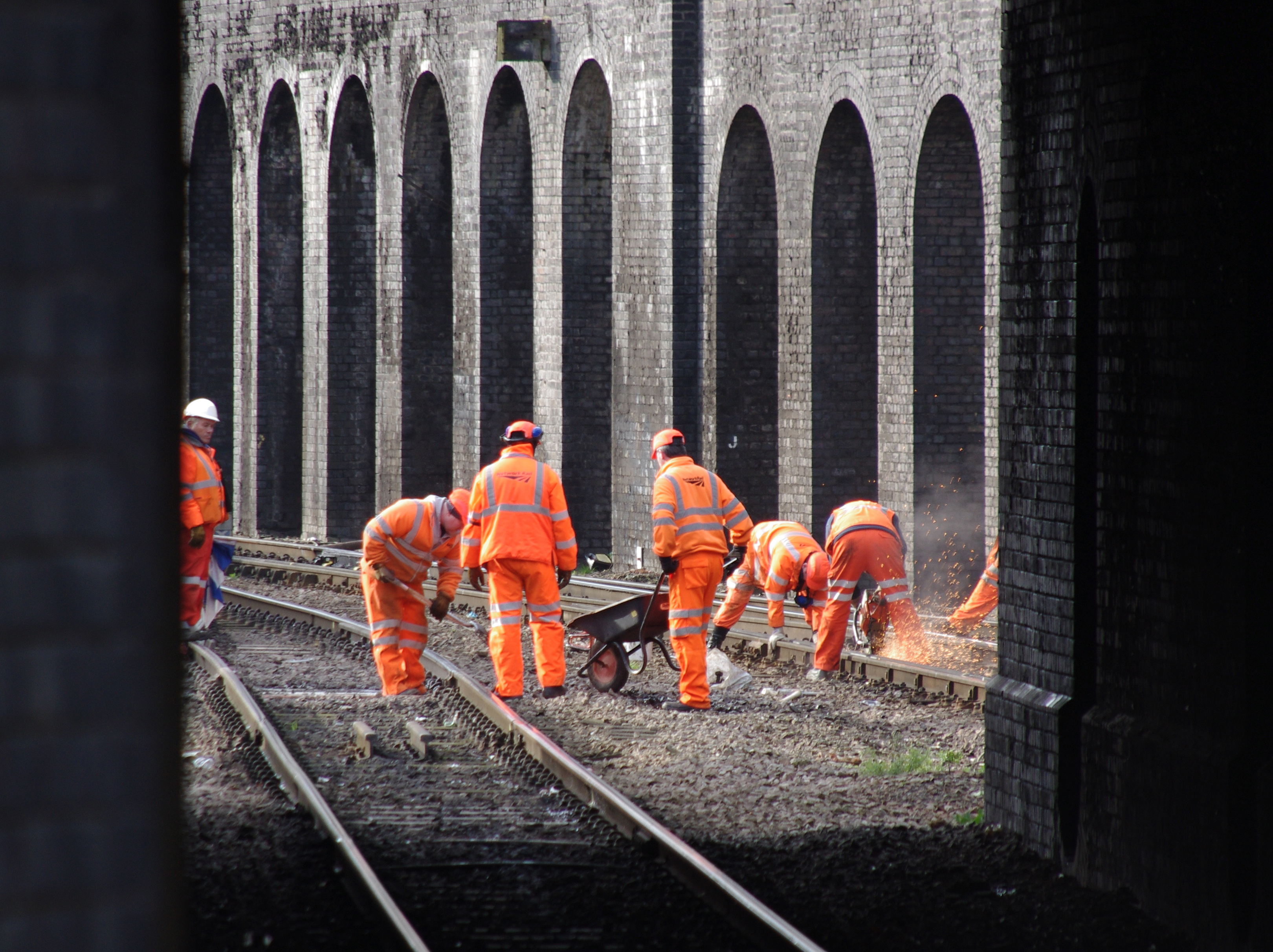 Network Rail permanent way staff working on track renewals just south of Leicester railway station.